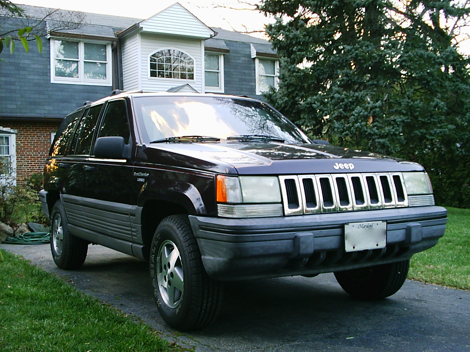 1993 Jeep Grand Cherokee (ZJ) finished in Metallic Blackberry (paint code: PM9) a deep burgundy. Equipment includes the Laredo 26F package and the Quadra-Trac full-time all wheel drive. This is an early production car built in April 1992. It is has a matching Crimson interior.